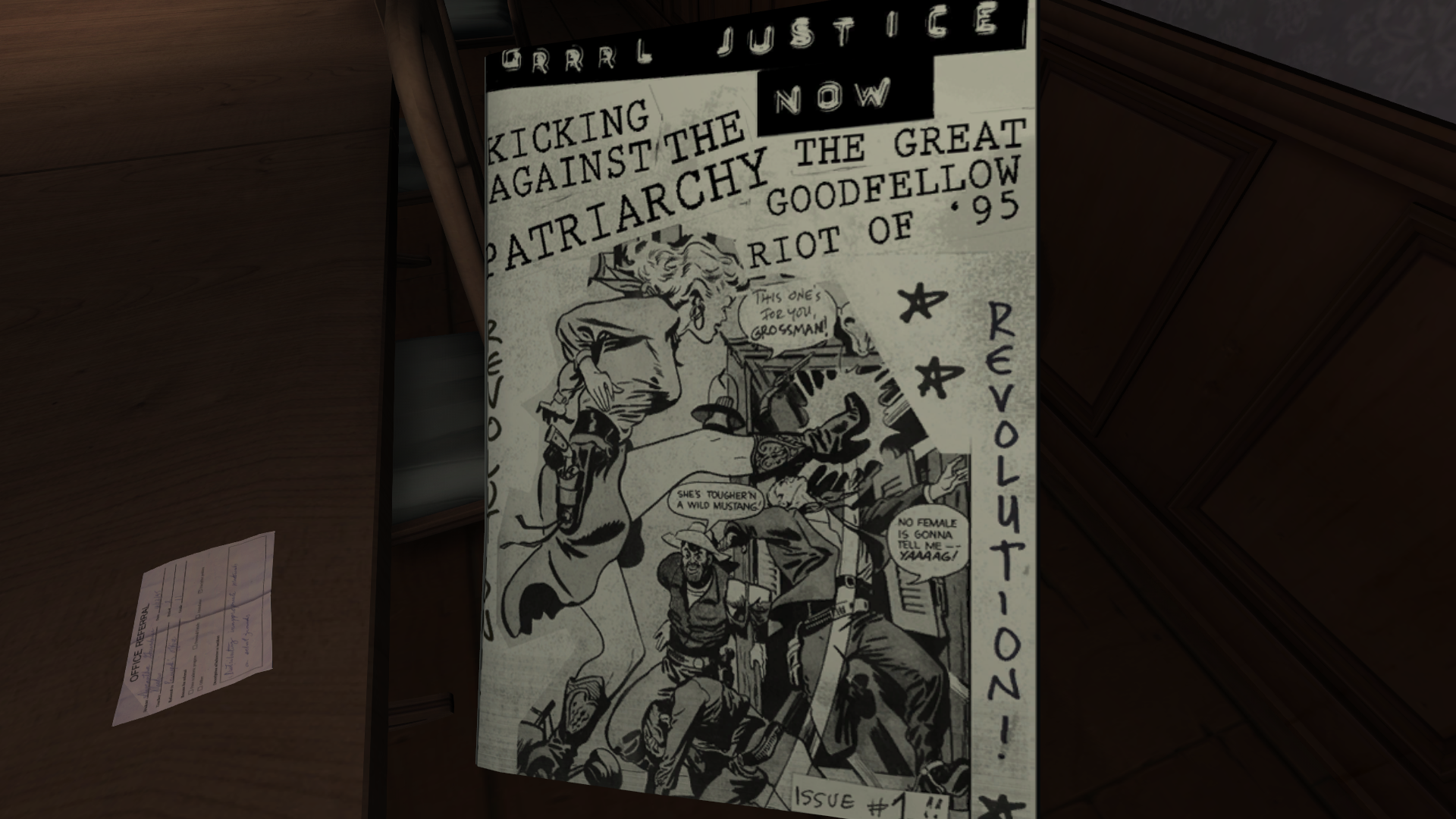 Gone Home gameplay screenshot, the player examines a zine from a first-person perspective. Released in August 2013 by The Fullbright Company.